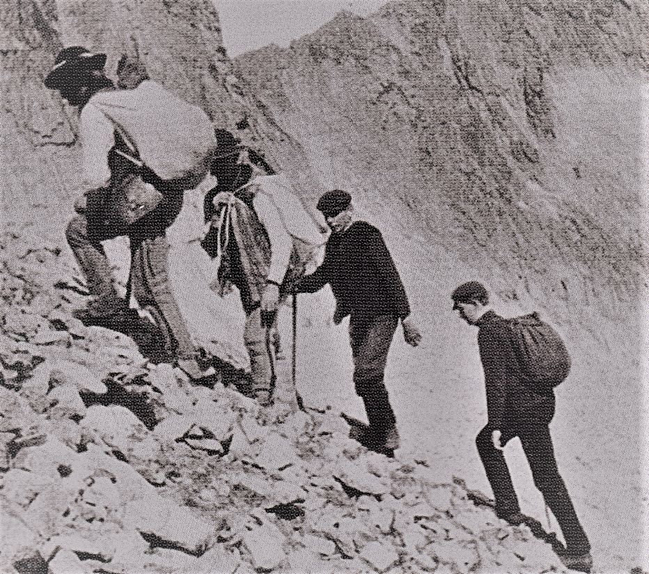 19th Century Historical Photography. Mountain carriers in the High Tatras, Slovakia